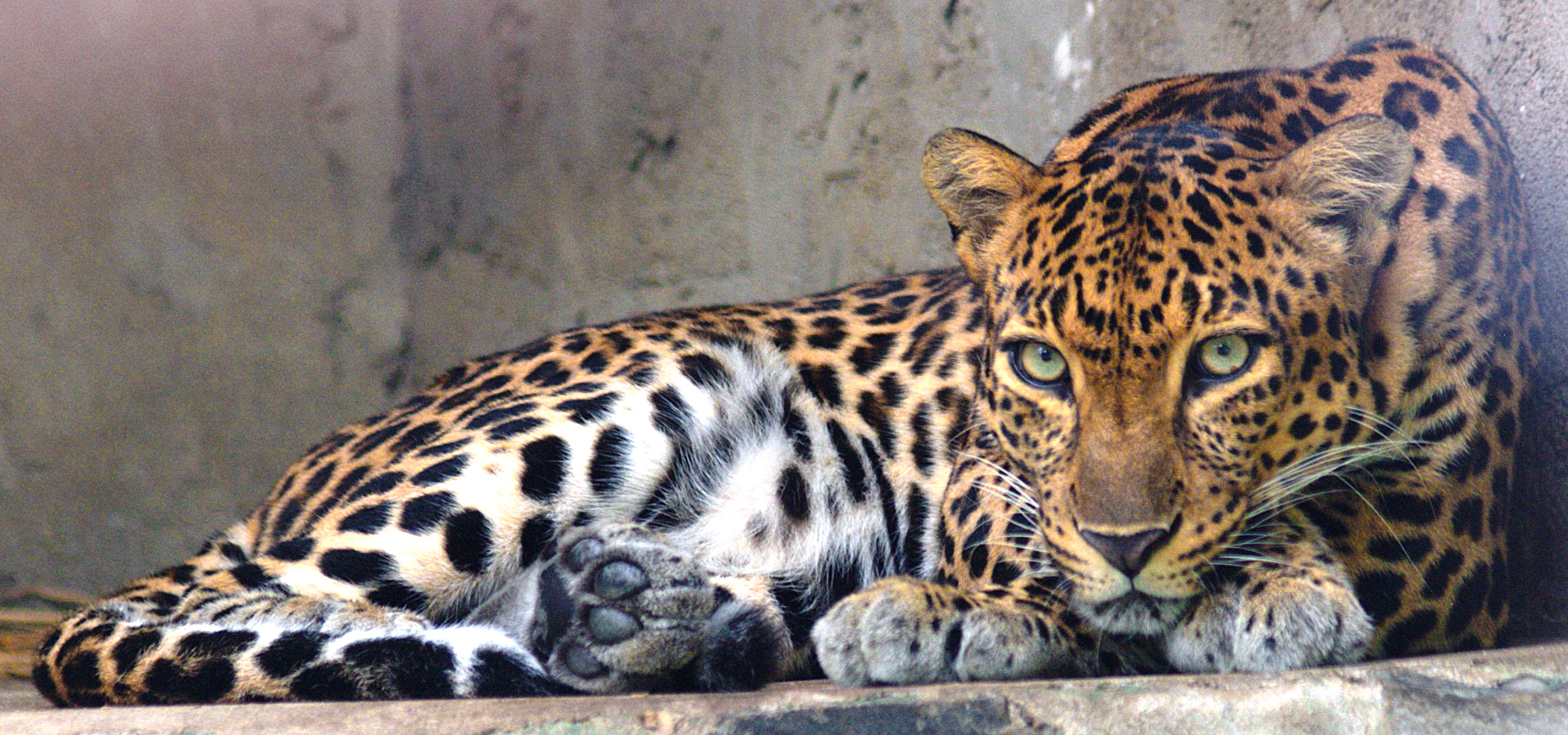 Indochinese leopard (Panthera pardus delacouri) at Saigon Zoo and Botanical Gardens, Vietnam.